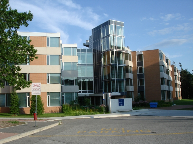 Author: SM108 Source: My Sony DSC-W100